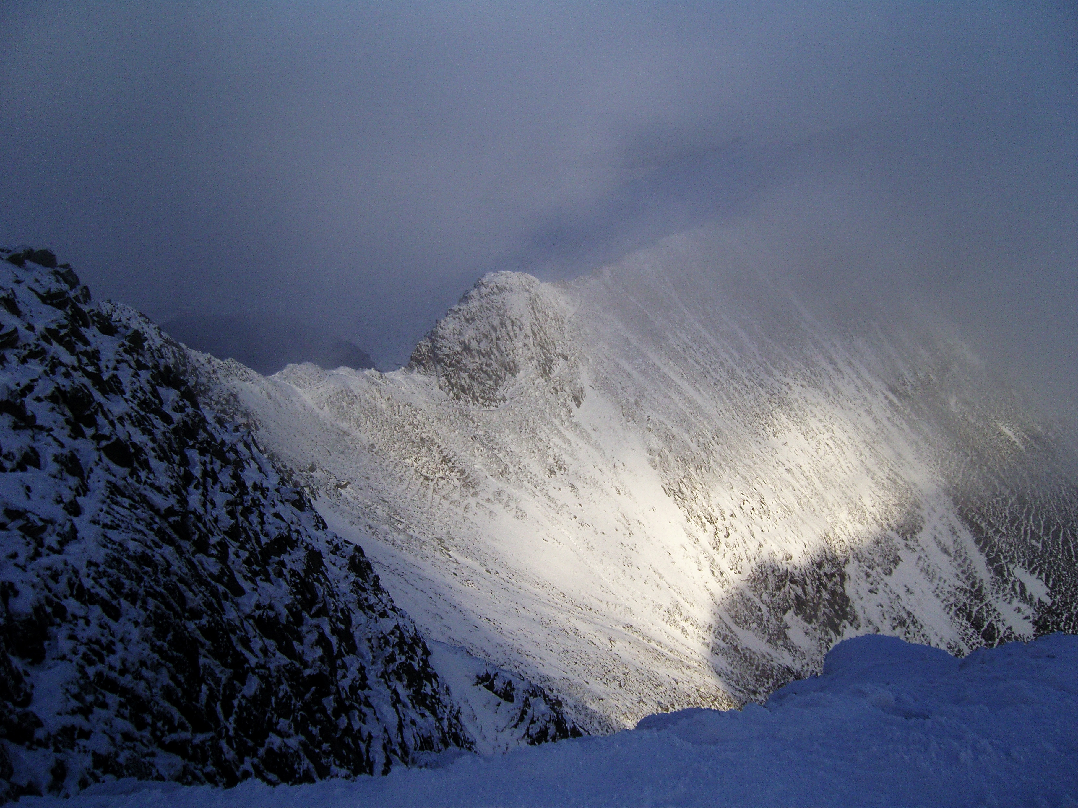 Striding Edge on Helvellyn, seen across Nethermost Cove.